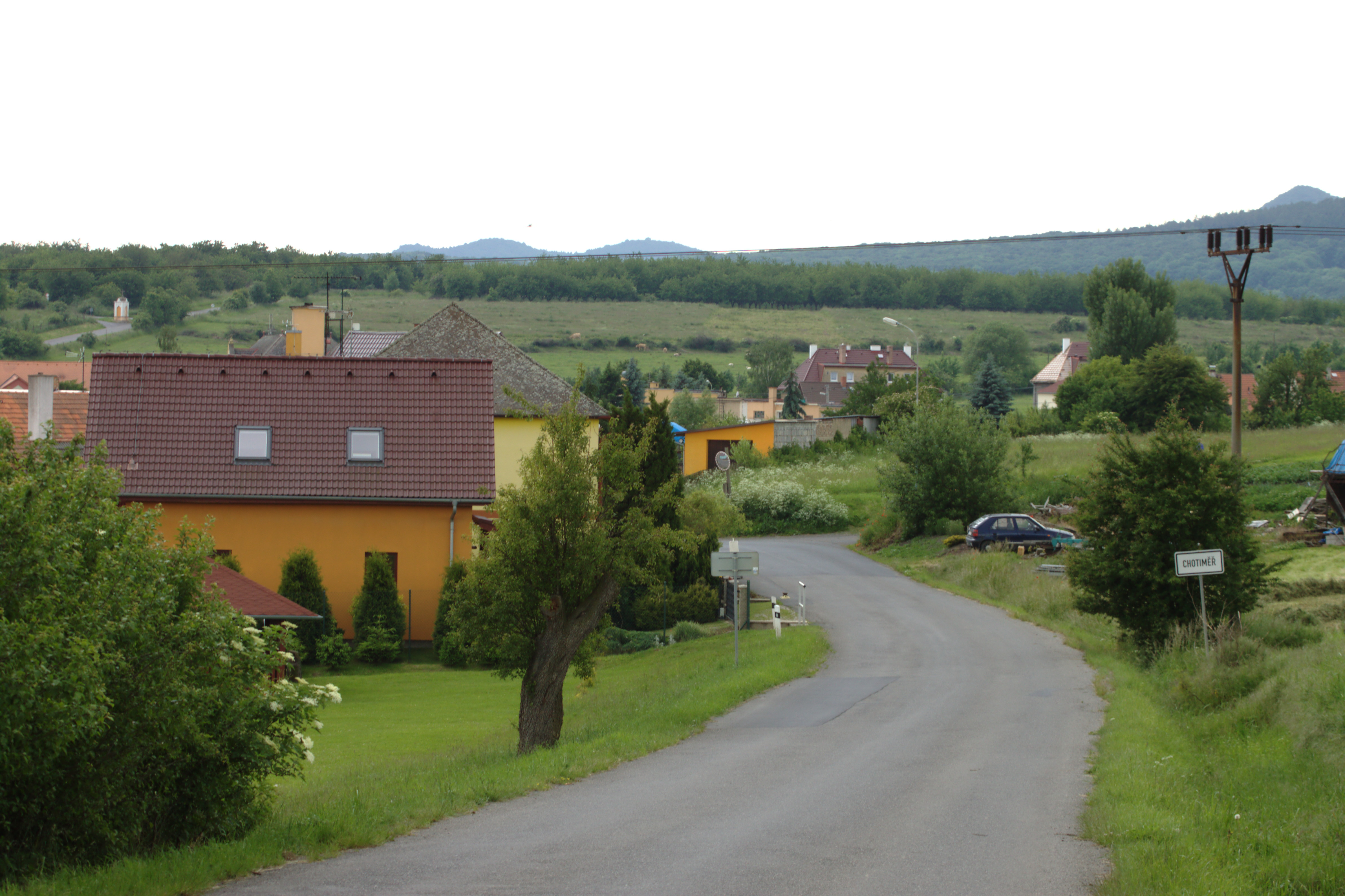 Town of Chotiměř seen from the east, Ústí Region, CZ